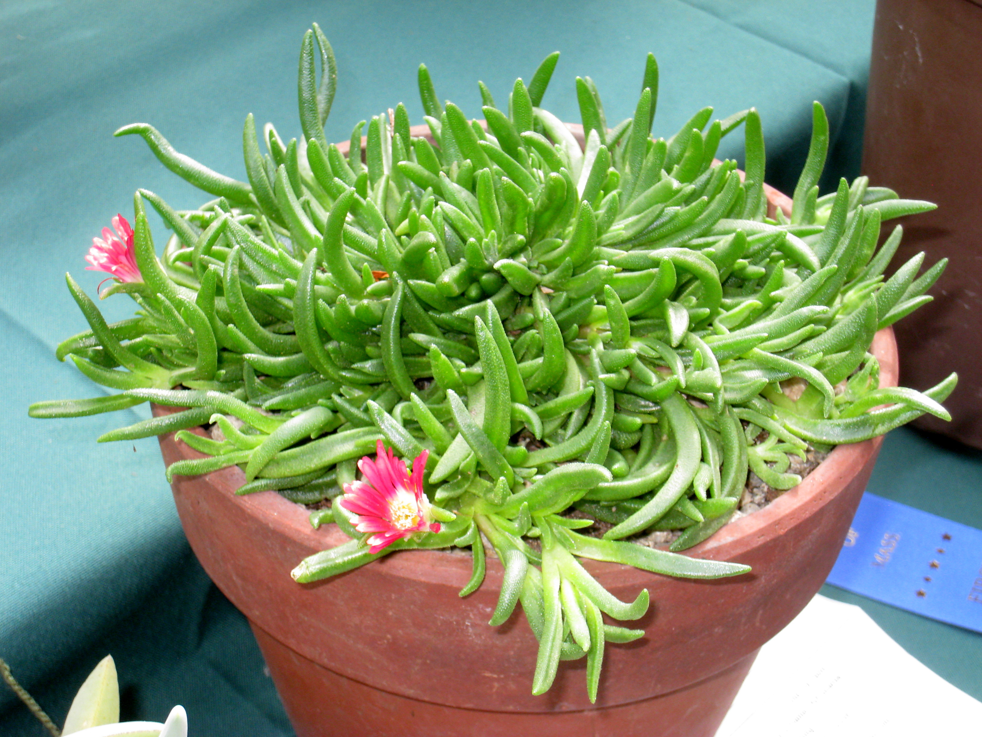 Delosperma dyeri, in the Tower Hill Botanic Garden, Boylston, Massachusetts, USA.